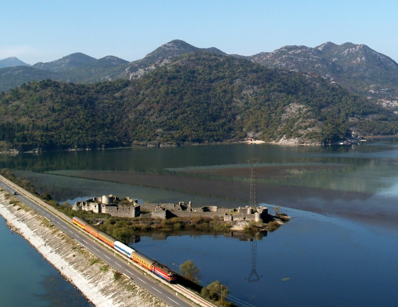 A ŽCG (Zeleznice Crna Gore, Railways of Monte Negro) 461 class locomotive is hauling fast train Tara near the water castle at Vranjinja at the beginning of its spectacular journey to Belgrade.